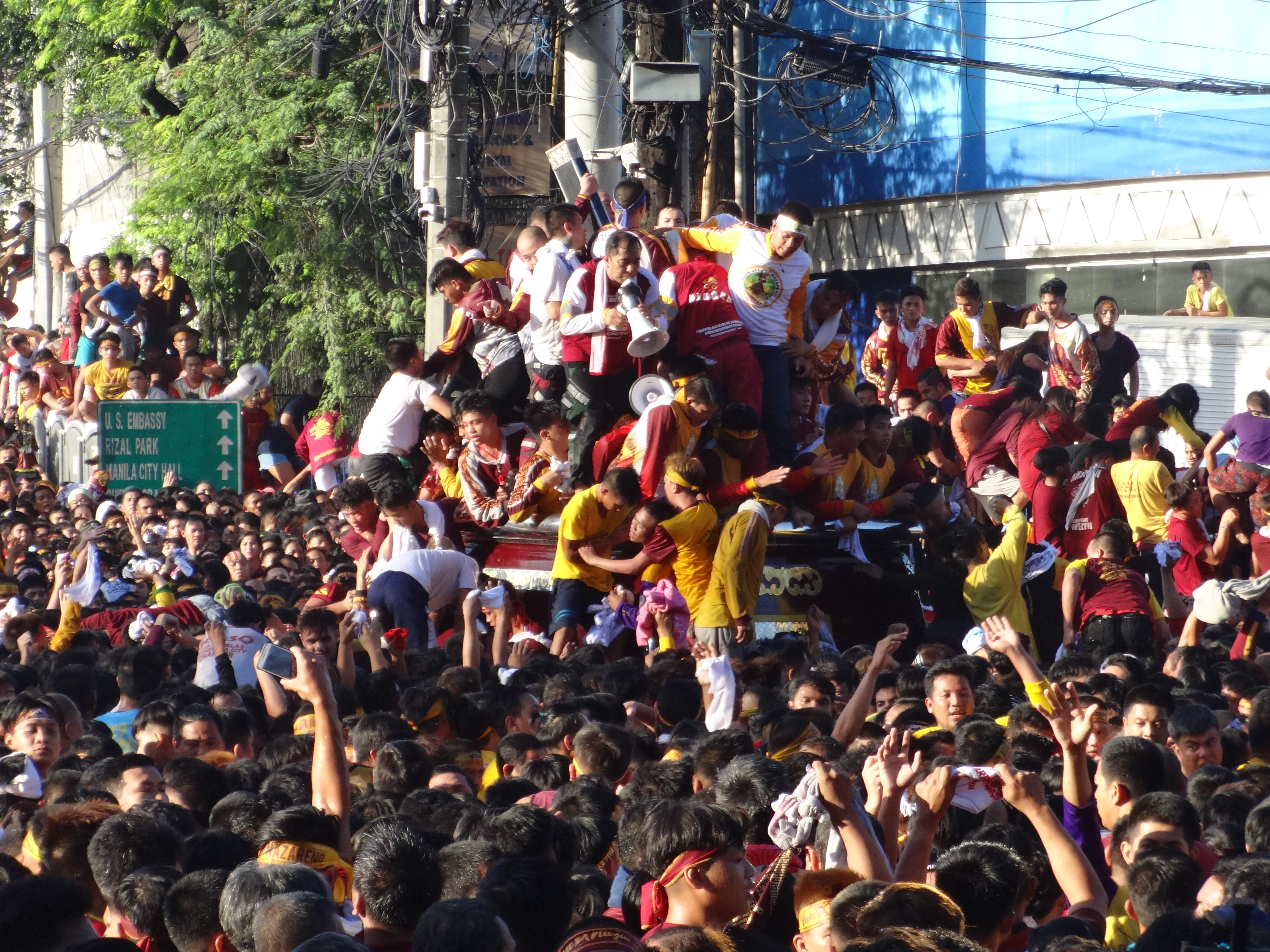 Black Nazarene's Traslacion 2020 at Ayala Bridge